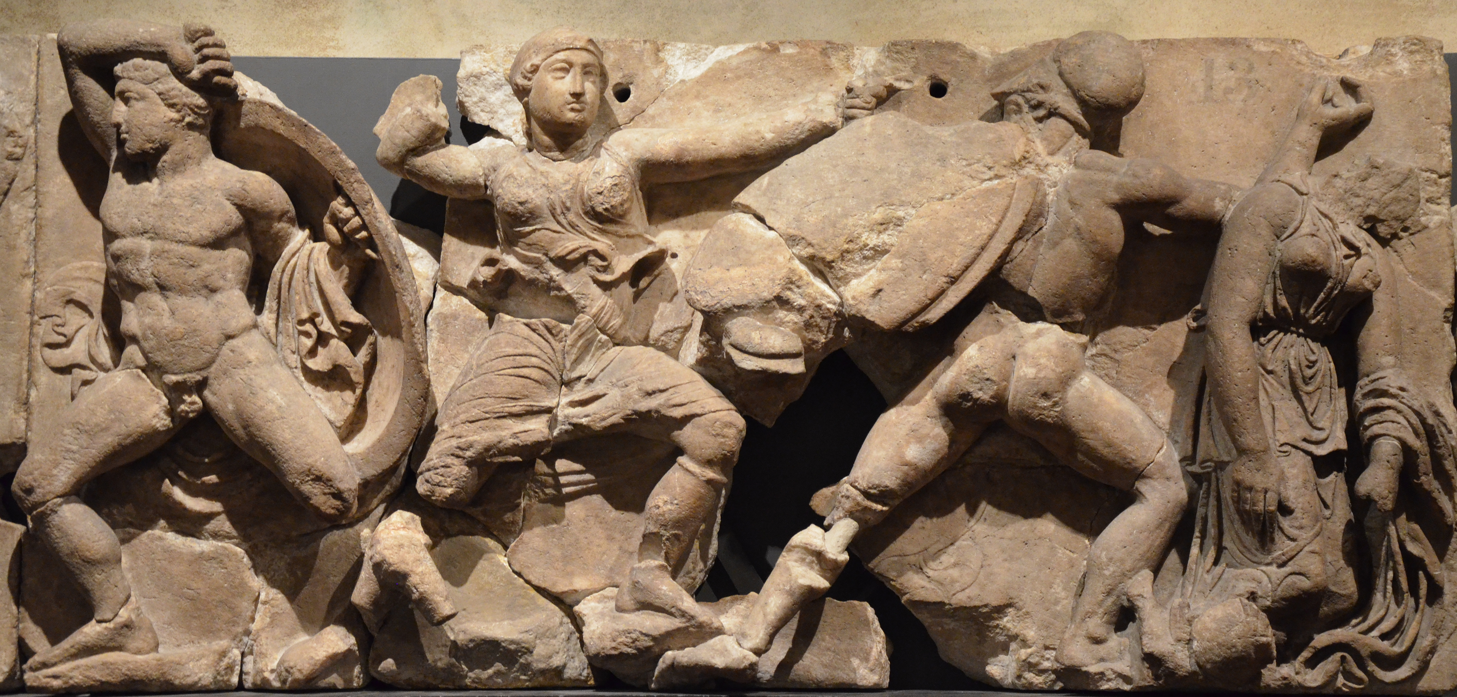 The Bassai sculptures, marble block from the frieze of the Temple of Apollo Epikourios at Bassae (Greece), Greeks fight Amazons, about 420-400 BC, British Museum